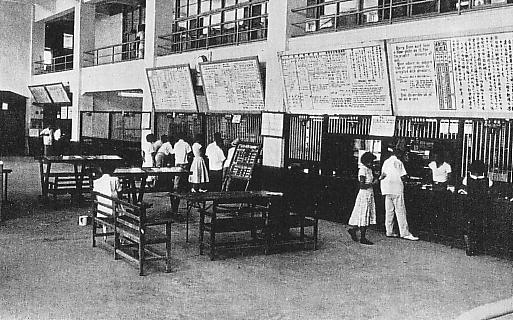 Inside Naha Central Post Office circa 1955